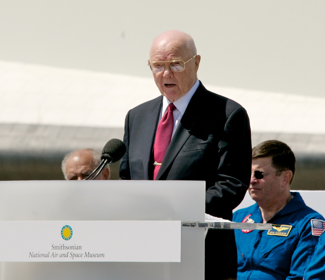 Senator John Glenn at the ceremony transferring the Space Shuttle Discovery to the National Air and Space Museum. Former Space Shuttle Discovery commanders Ken Cameron is to the right of Senator Glenn. Space Shuttle Enterprise is in the background.